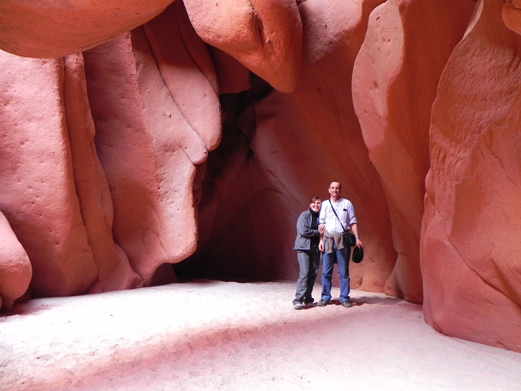 Caves of Acsibi in Salta province (Argentina).